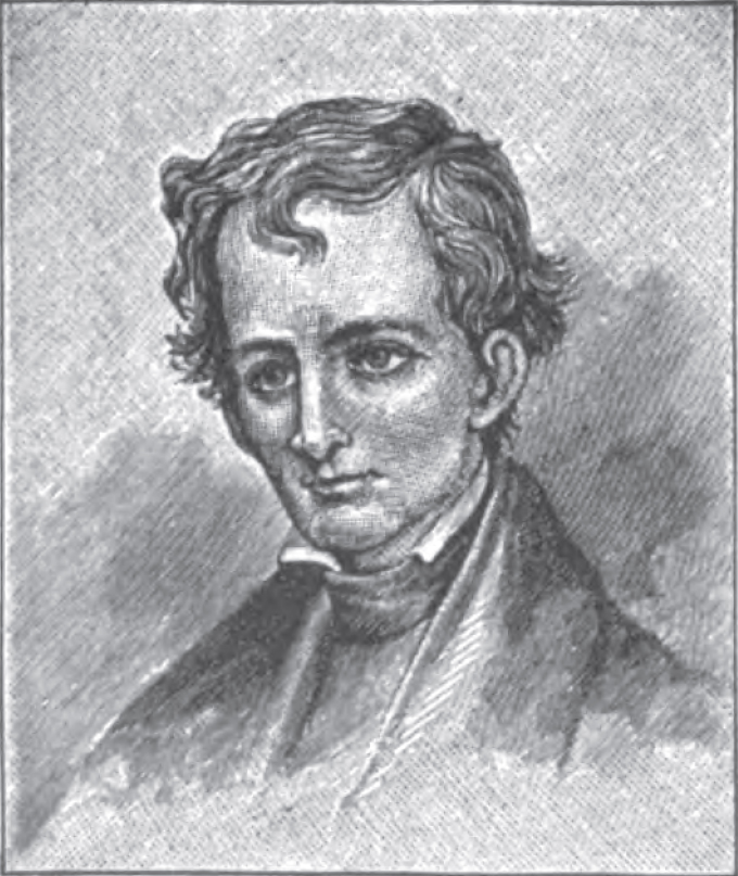 Kentucky Congressman Richard Hickman Menefee